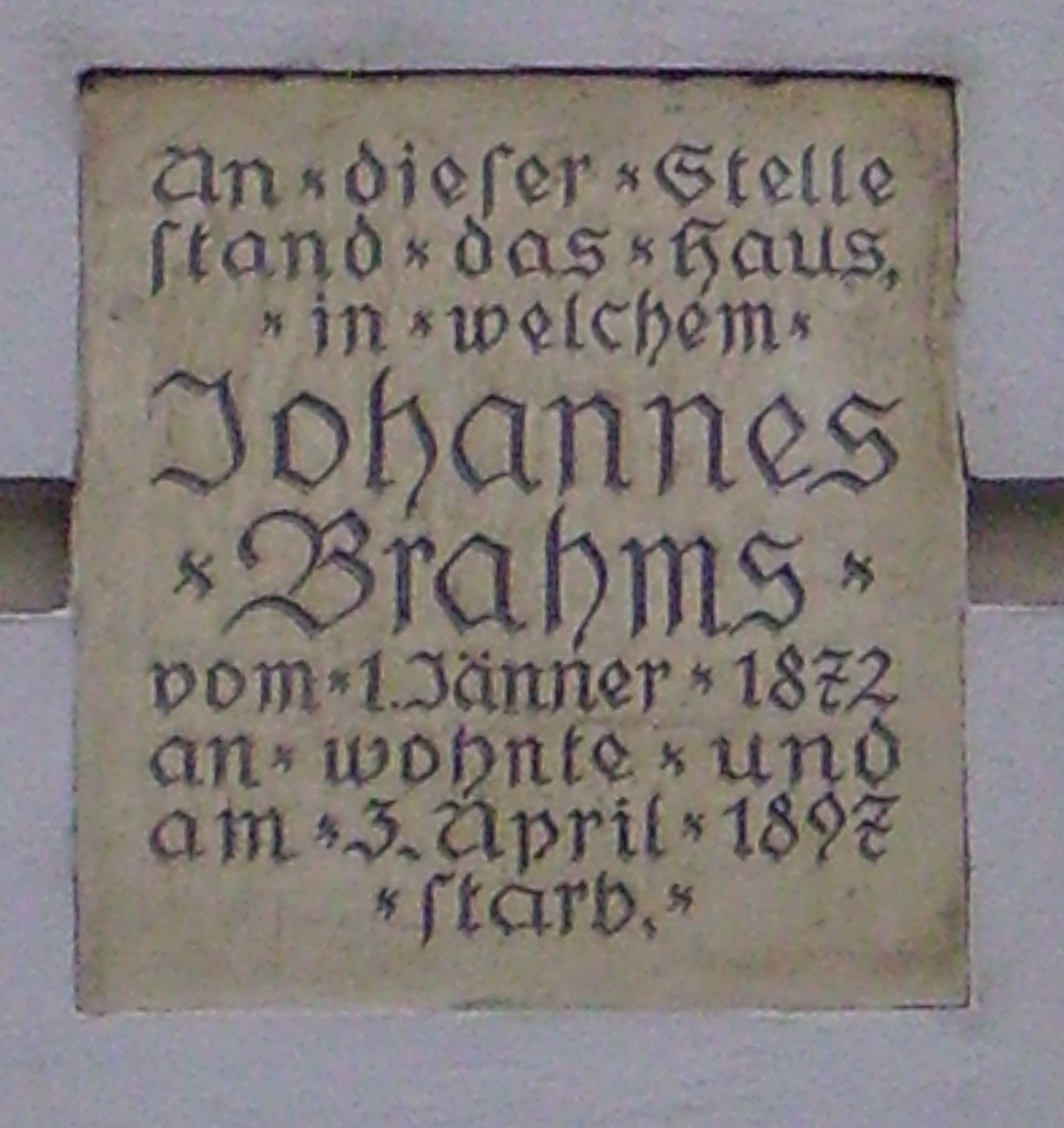 Memorial plaque at the last residence of Johannes Brahms, in Vienna, Karlsgasse 4; today part of the main building of the TU Wien Karlsgasse 2–10